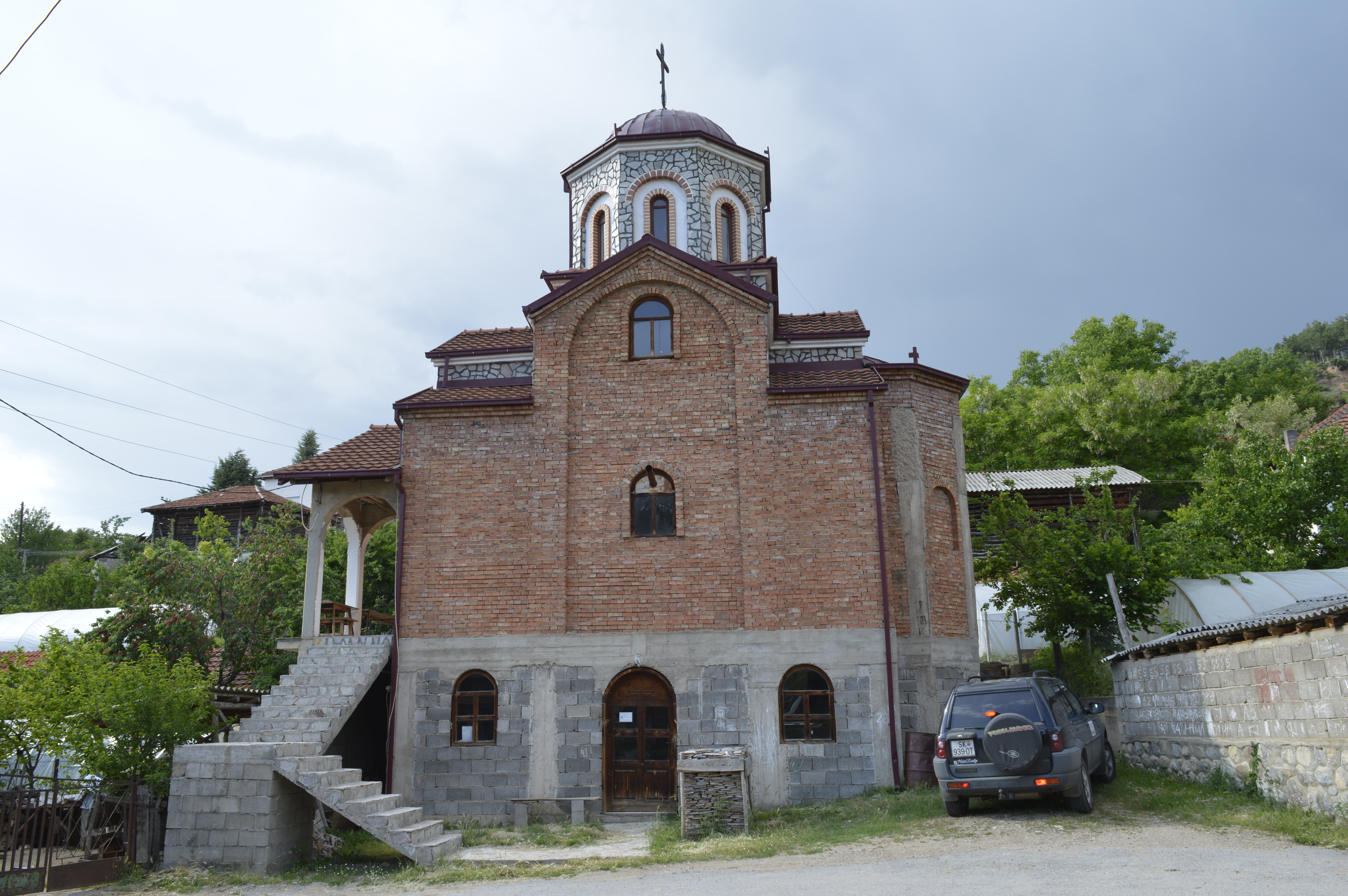 View of St. John the Baptist Church in the village Dzvegor